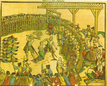 A flyer, dated 1573, describing the public execution of 16th century pirate Klein Henszlein.